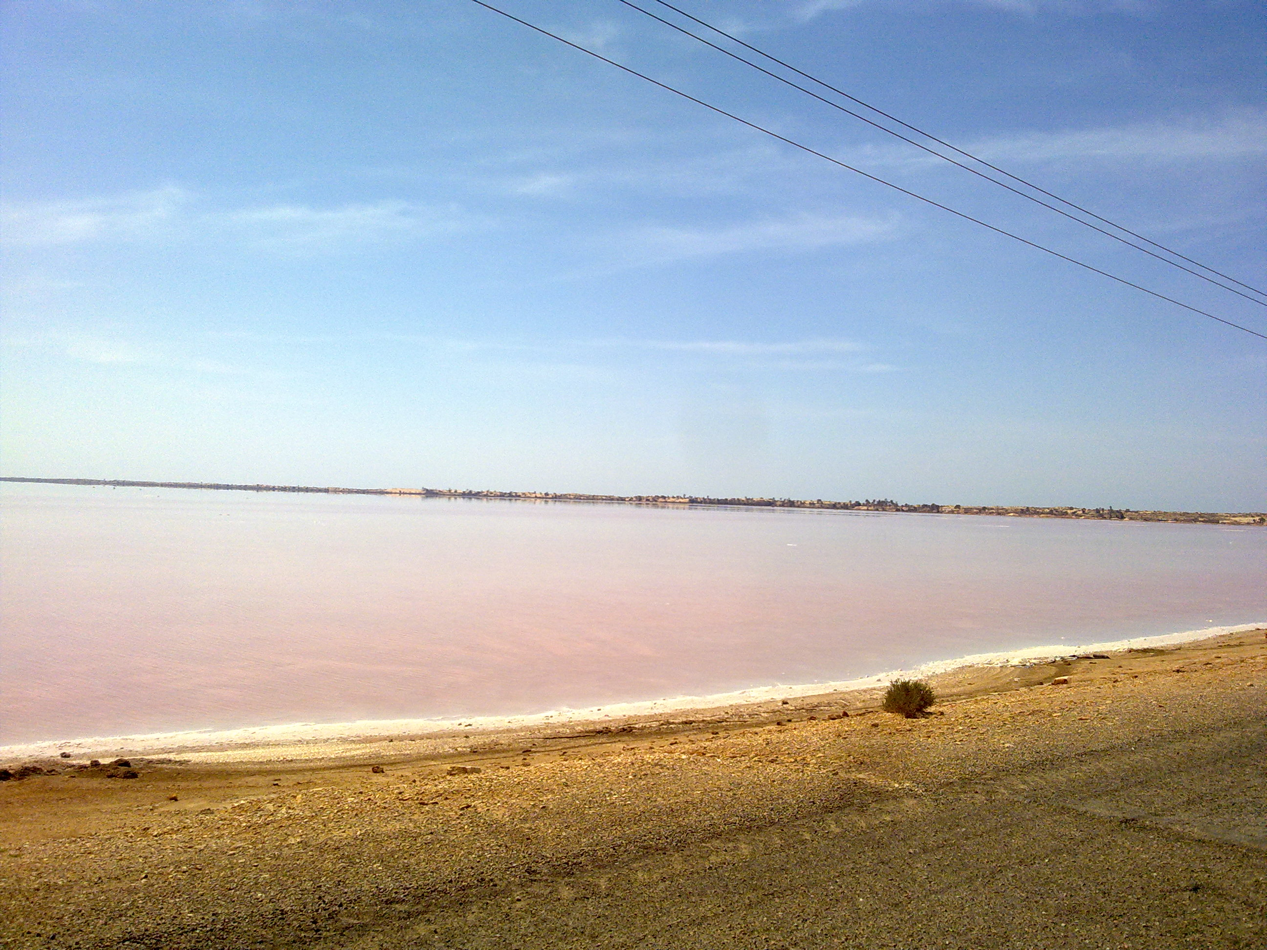 Karkura salt lake near El Magrun, Libya.